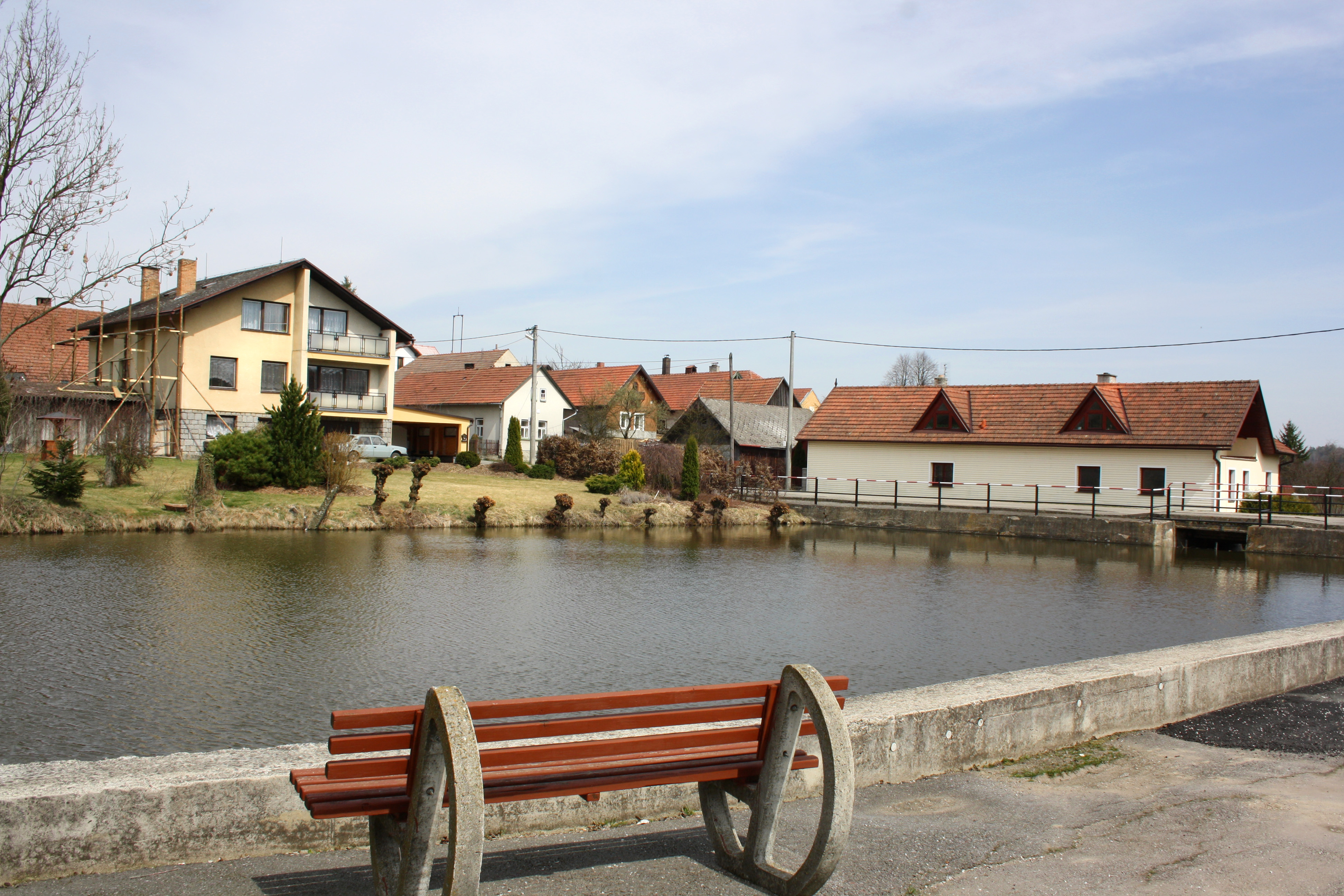 Common pond in Pavlínov